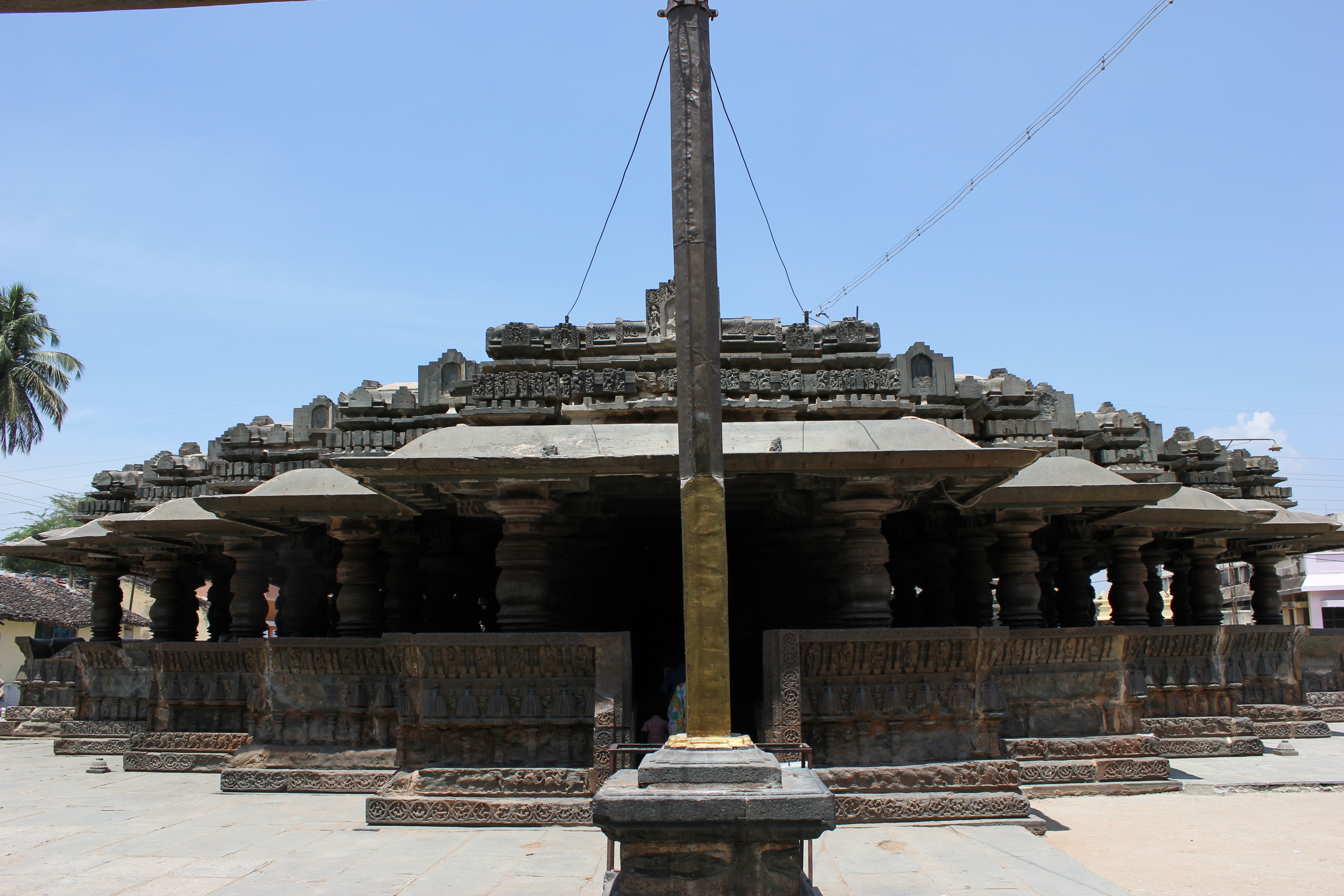 This photograph was taken by me in Harihar, Davangere district, Karnataka state, India. The Harihareshwara Temple at Harihar in was built in c.1223–1224 CE by Polalva, a commander and minister of the Hoysala Empire King Vira Narasimha II.